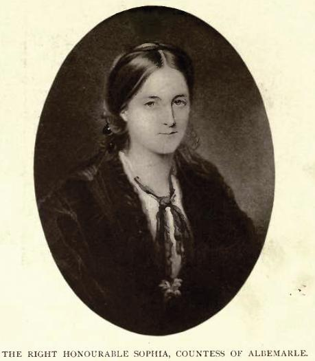 Right Honourable Sophia Countess of Albemarle, wife of William Keppel, 7th Earl of Albemarle